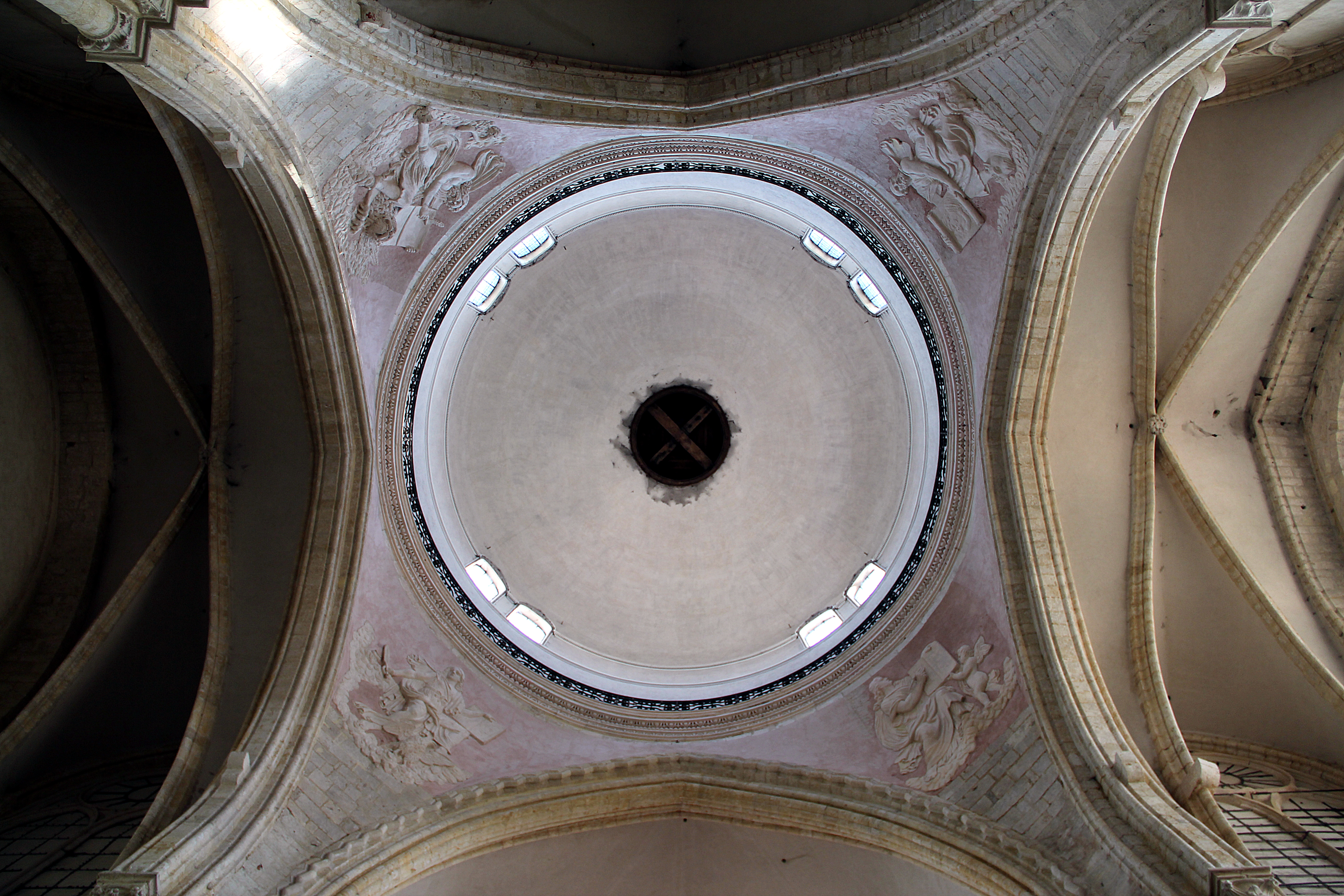 Provins (Île-de-France), ceiling vault of the collegiate Church of Saint-Quiriace transept (12th century).